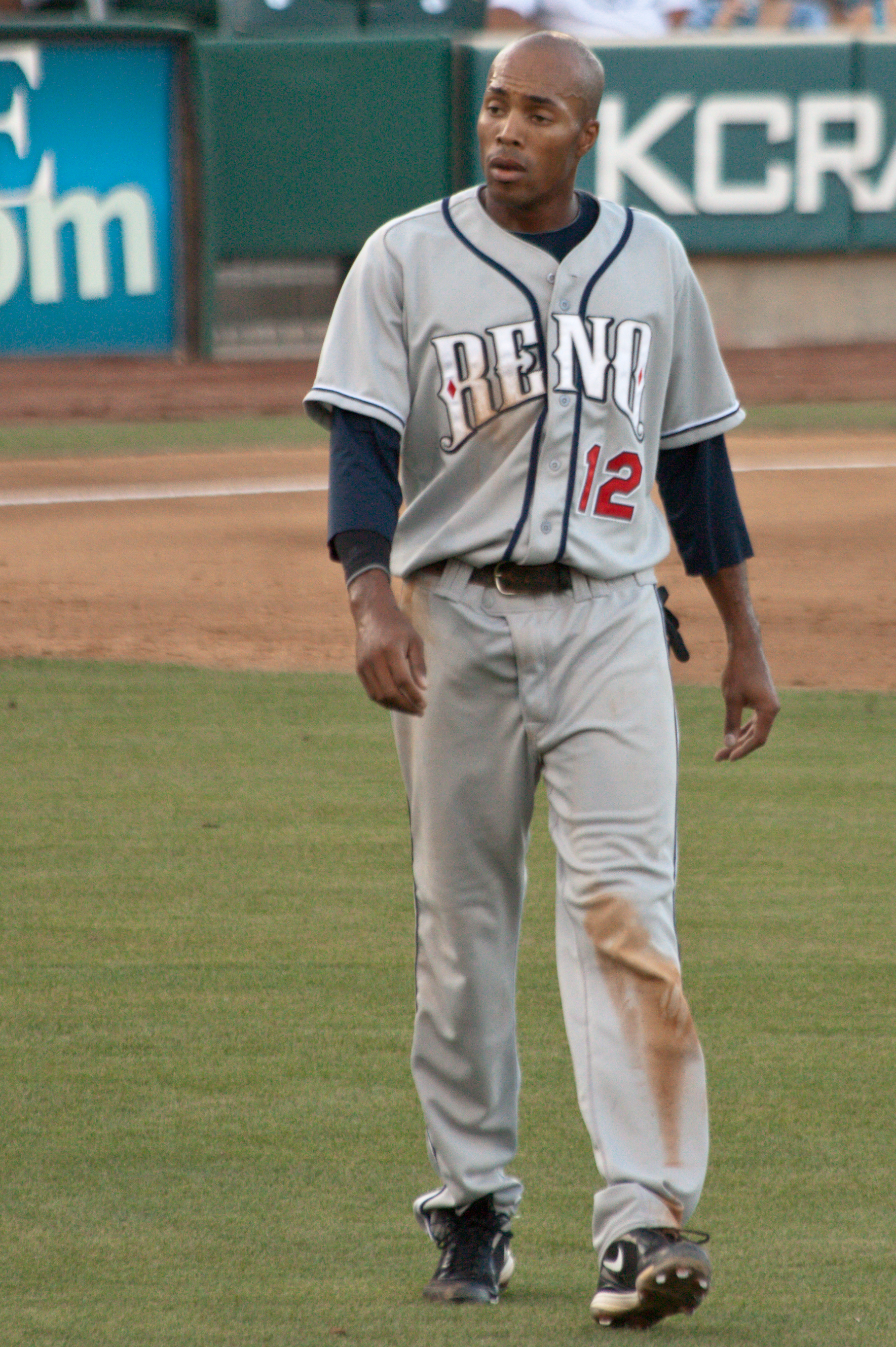 Chris Roberson of the Reno Aces at Raley Field